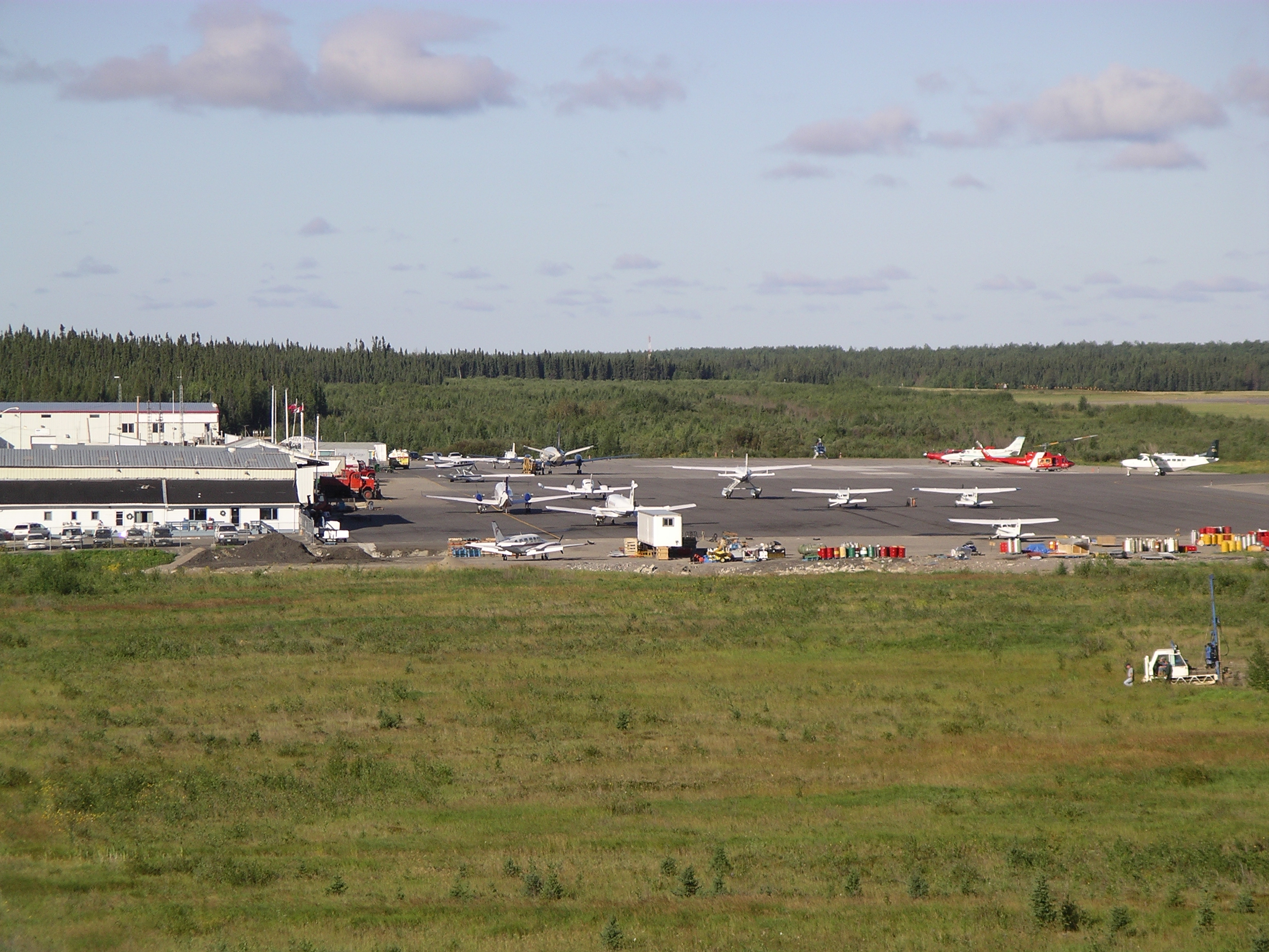 South Apron